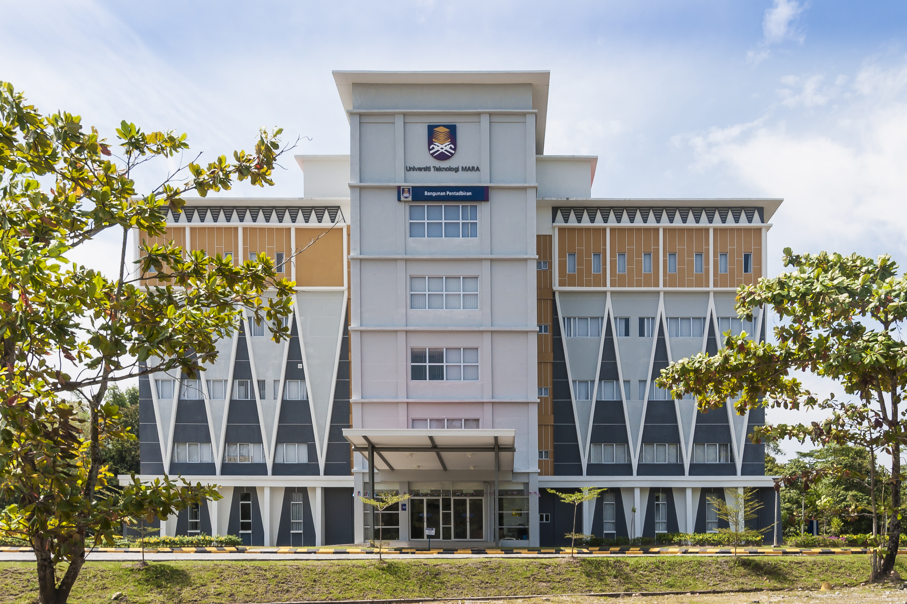 Universiti Teknologi Mara, Campus Sabah, Kota Kinabalu; Administration Building (Bangunan Pentadbiran)